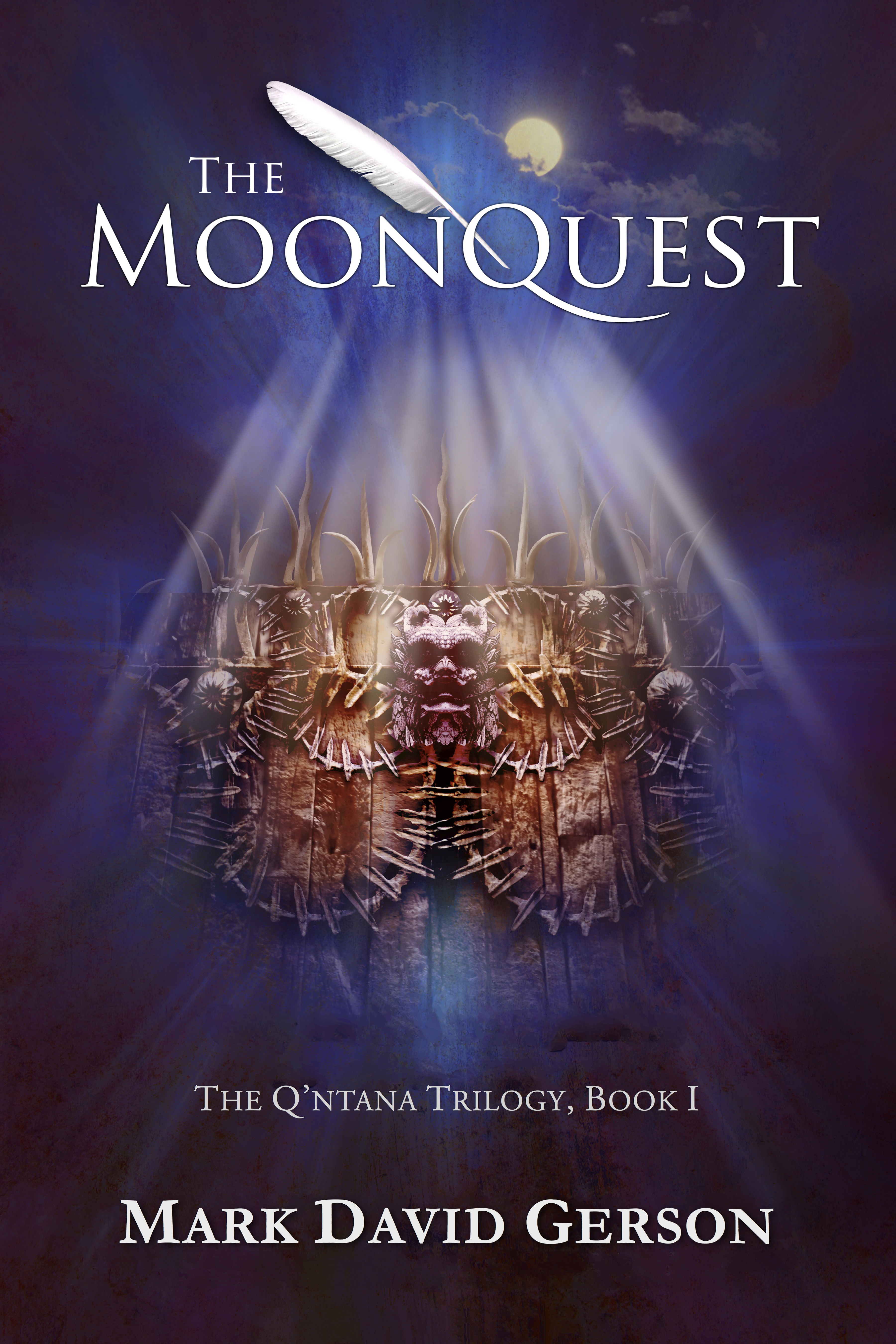 Book cover for The MoonQuest: The Q'ntana Trilogy, Book I by Mark David Gerson